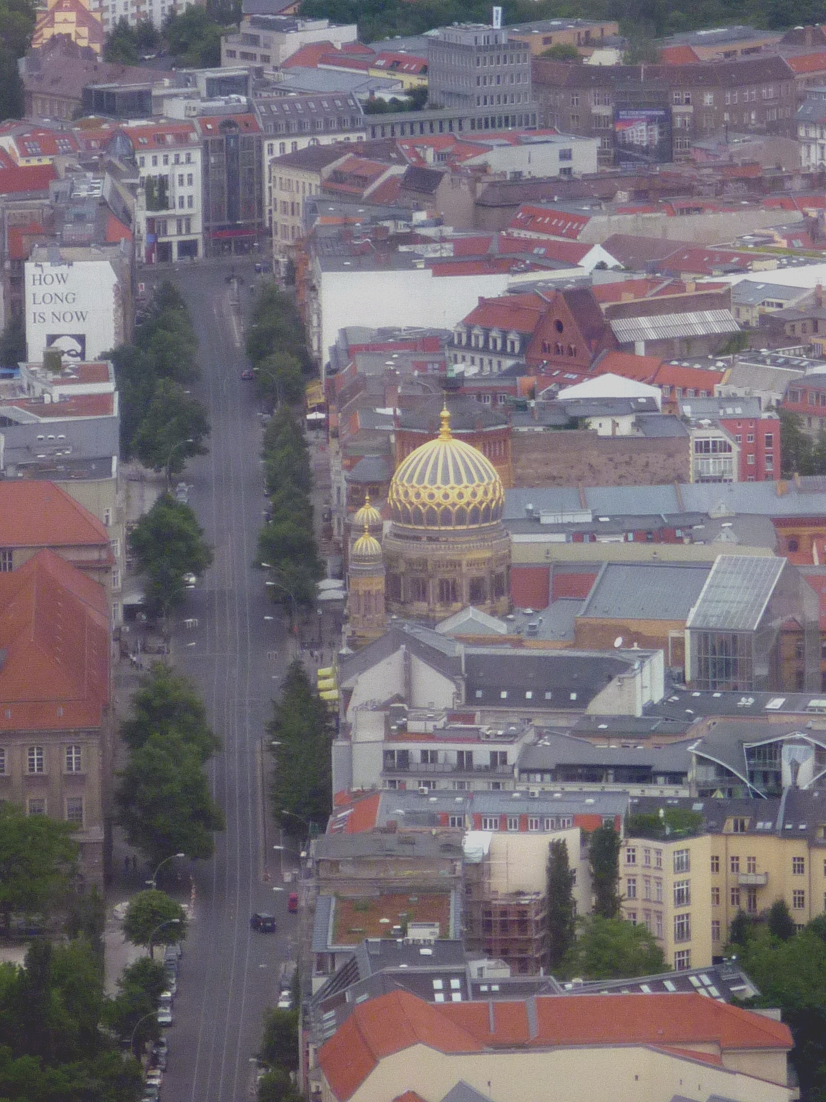 New Synagogue (Berlin) in Berlin, Germany